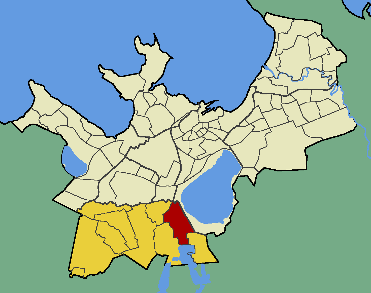 Map of Tallinn (Estonia) with borders of the quarters, Nõmme district and Liiva quarter emphasised